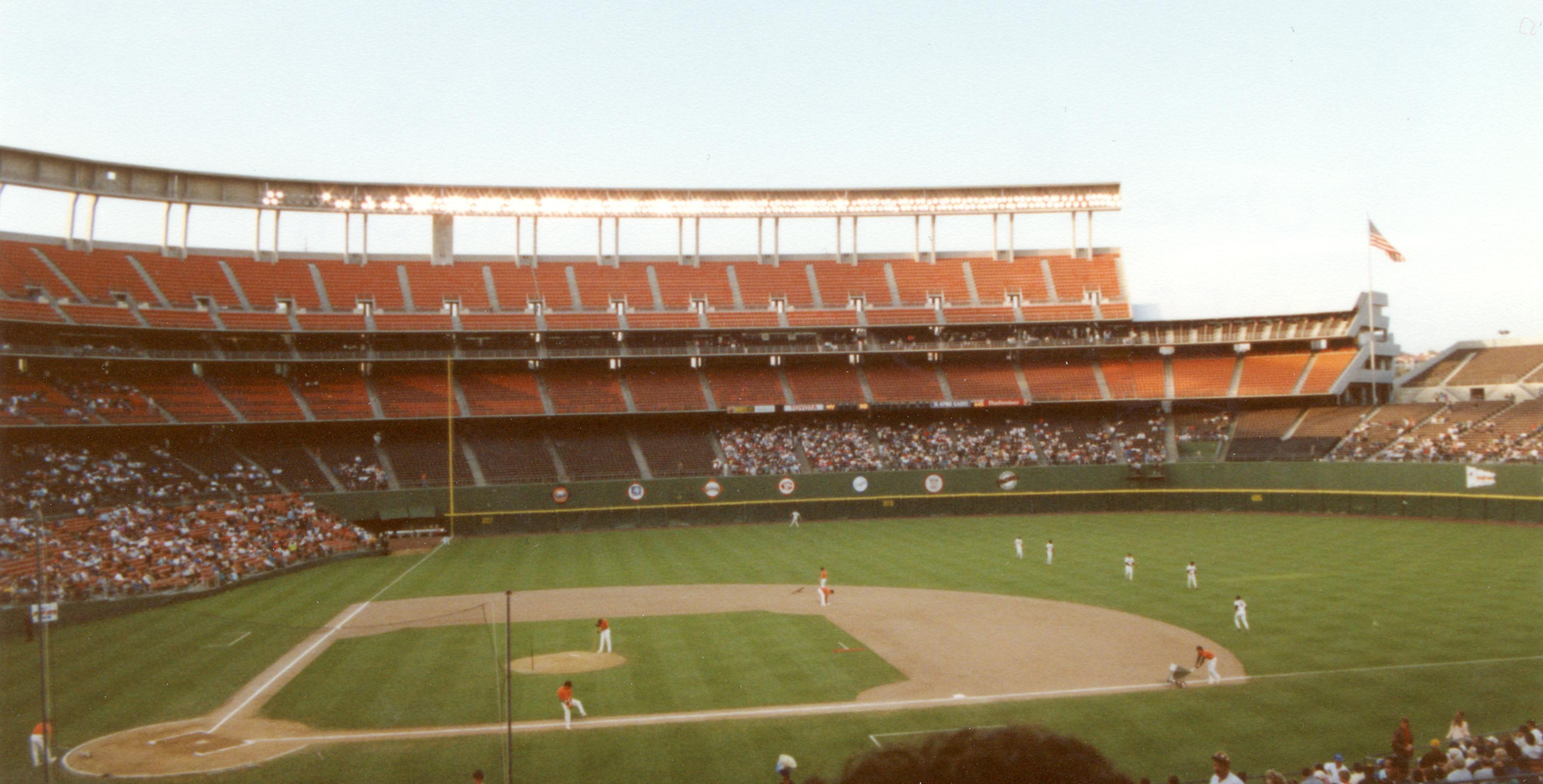 San Diego Padres v New York Mets Jack Murphy Stadium Taken on holiday in 1990, scanned in 2007